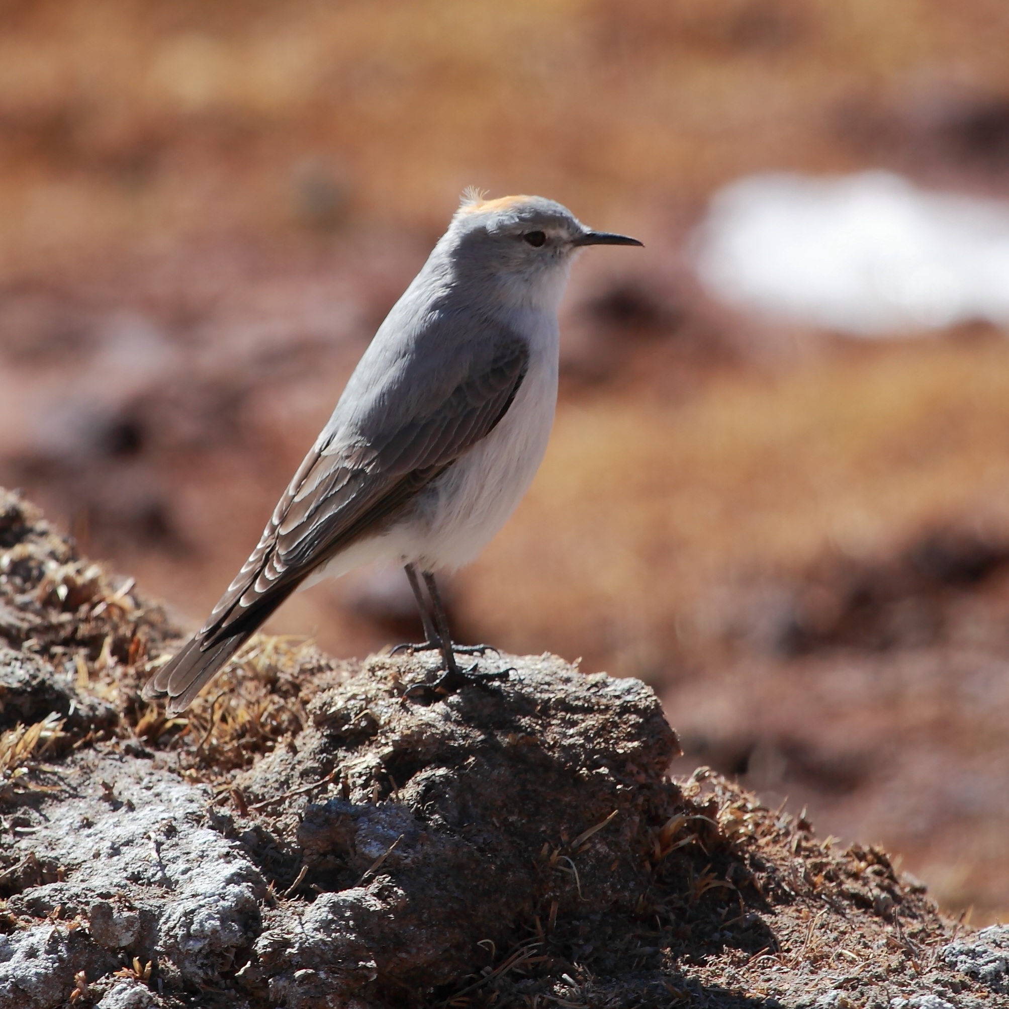 Rufous-naped Ground-Tyrant at Rio Machuca, San Pedro de Atacama, Chile